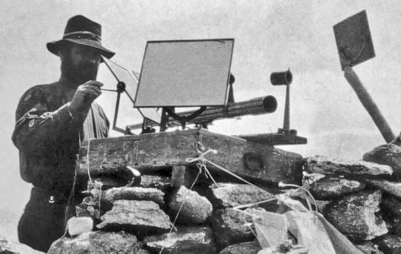 Heliotrope being used in western United States